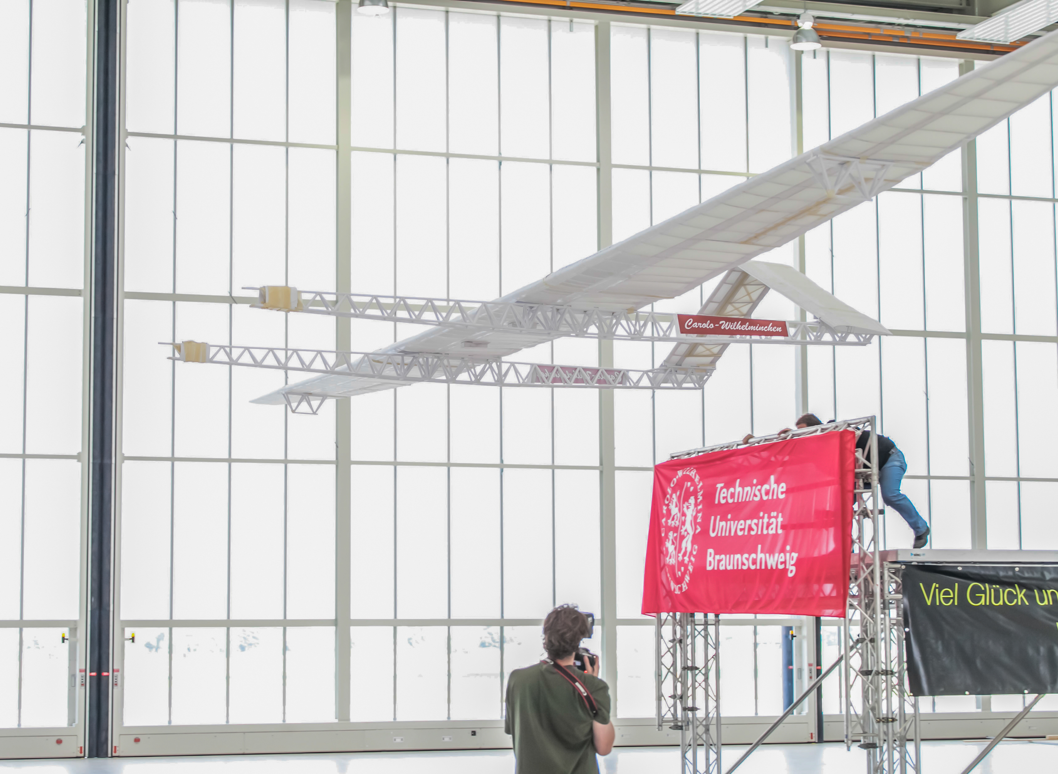 Record flight of the largest paper aircraft in the world, Carolo-Wilhelminchen, at the Braunschweig Airport on Sept. 28th 2013